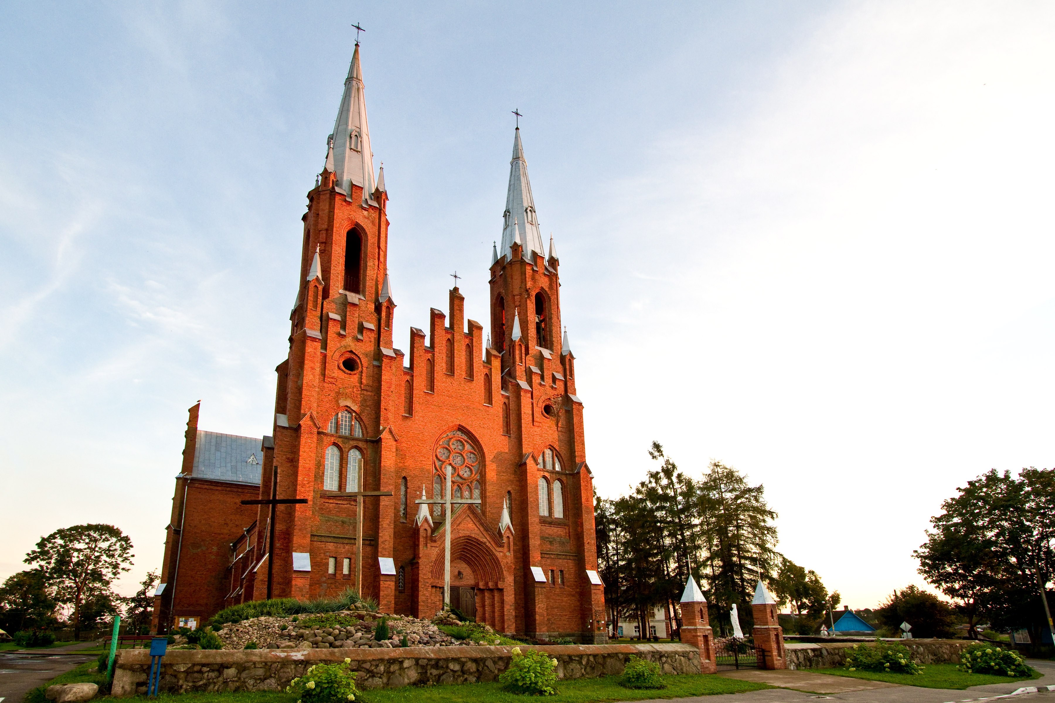 Catholic church of the Holy Trinity in Vidzy. Brasłaŭ district, Viciebsk province, Belarus.